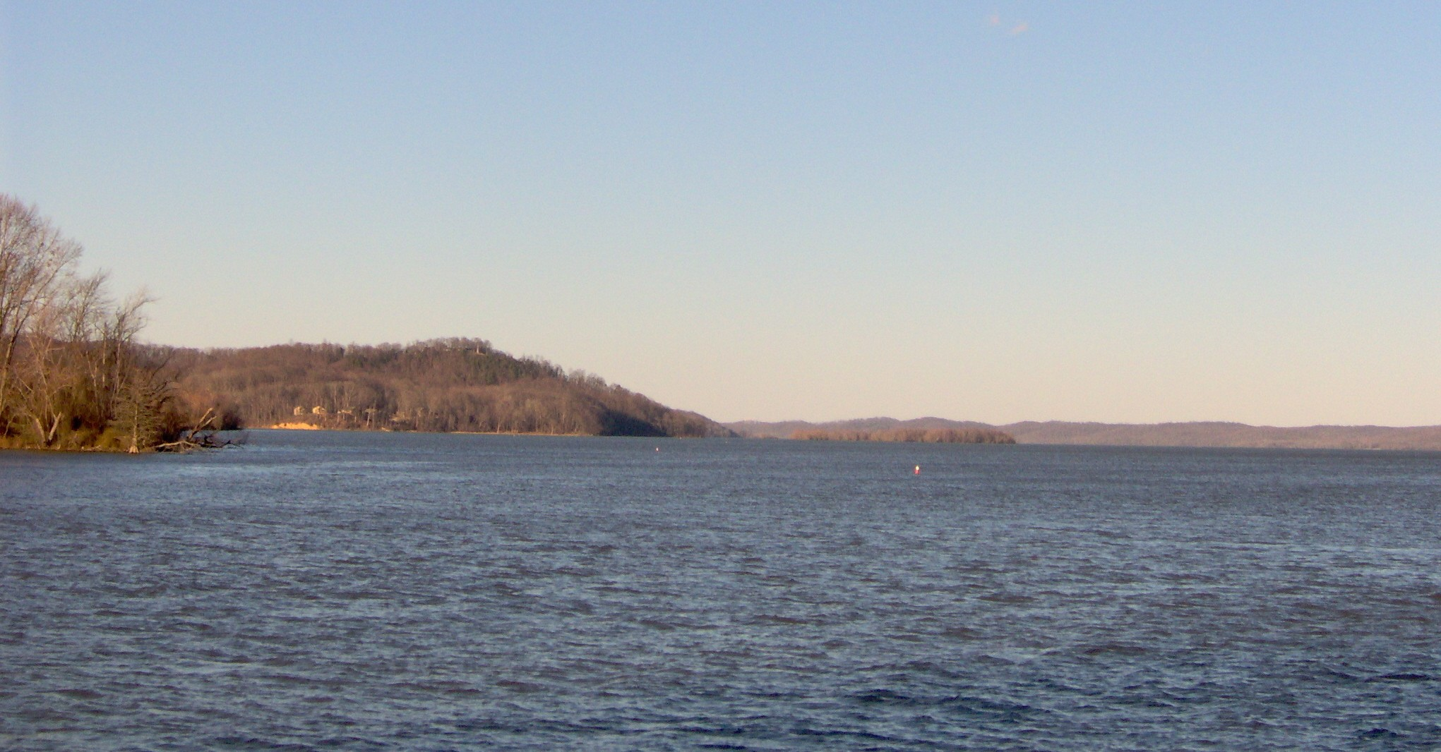 Looking north from the boatramp at Eva Beach in Benton County, Tennessee, in the southeastern United States. The Eva archaic site was located under the water, below and to the left of the center of the photo. Pilot Knob is the large hill on the left.